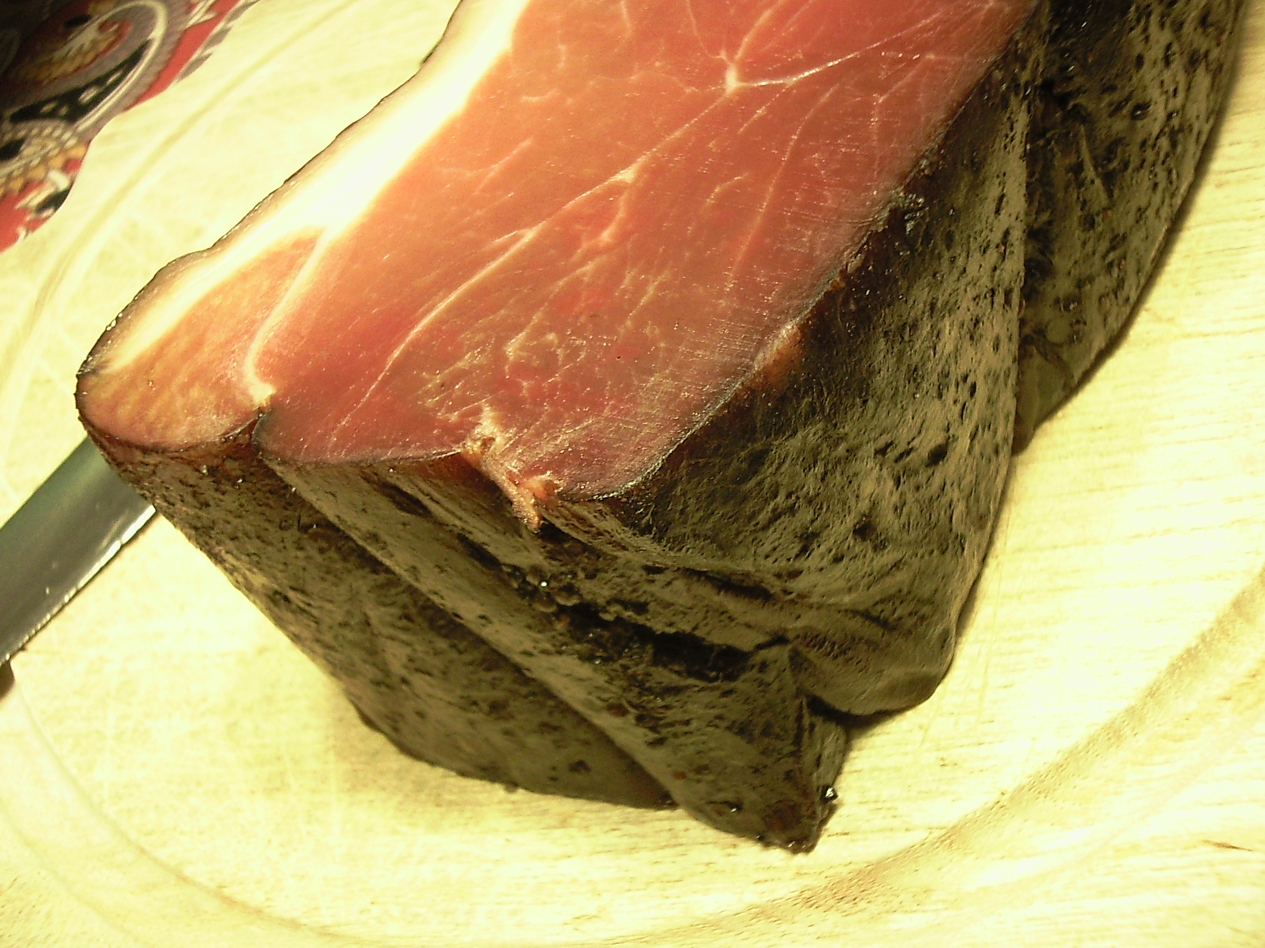 Black Forest ham